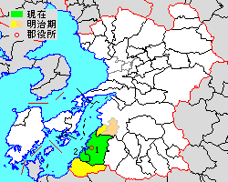 The location of Ashikita_District in Kumamoto Prefectuur, Japan